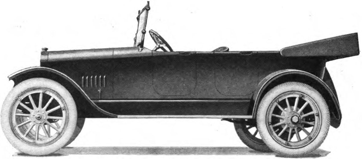 This book is from the Internet Archive collection of public domain books. The book itself is dated 1919, but the notes at the archive read as follows: Book digitized by Google from the library of the University of Michigan and uploaded to the Internet Archive by user tpb. Reprint of the 1915 and 1916 issues of the annual handbook, later called Official handbook of automobiles. It was originally issued by the National Automobile Chamber of Commerce, which later became Automobile Manufacturers Association